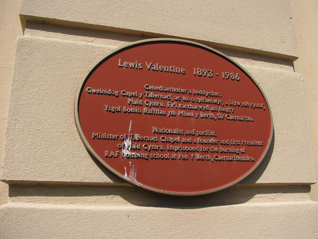 Lewis Valentine Plaque Lewis Valentine was imprisoned for the burning of RAF bombing school at Pen-Y-Berth, Cearnarvonshire. The plaque is located on the Tabernacl Chapel, Upper Mostyn Street, Llandudno